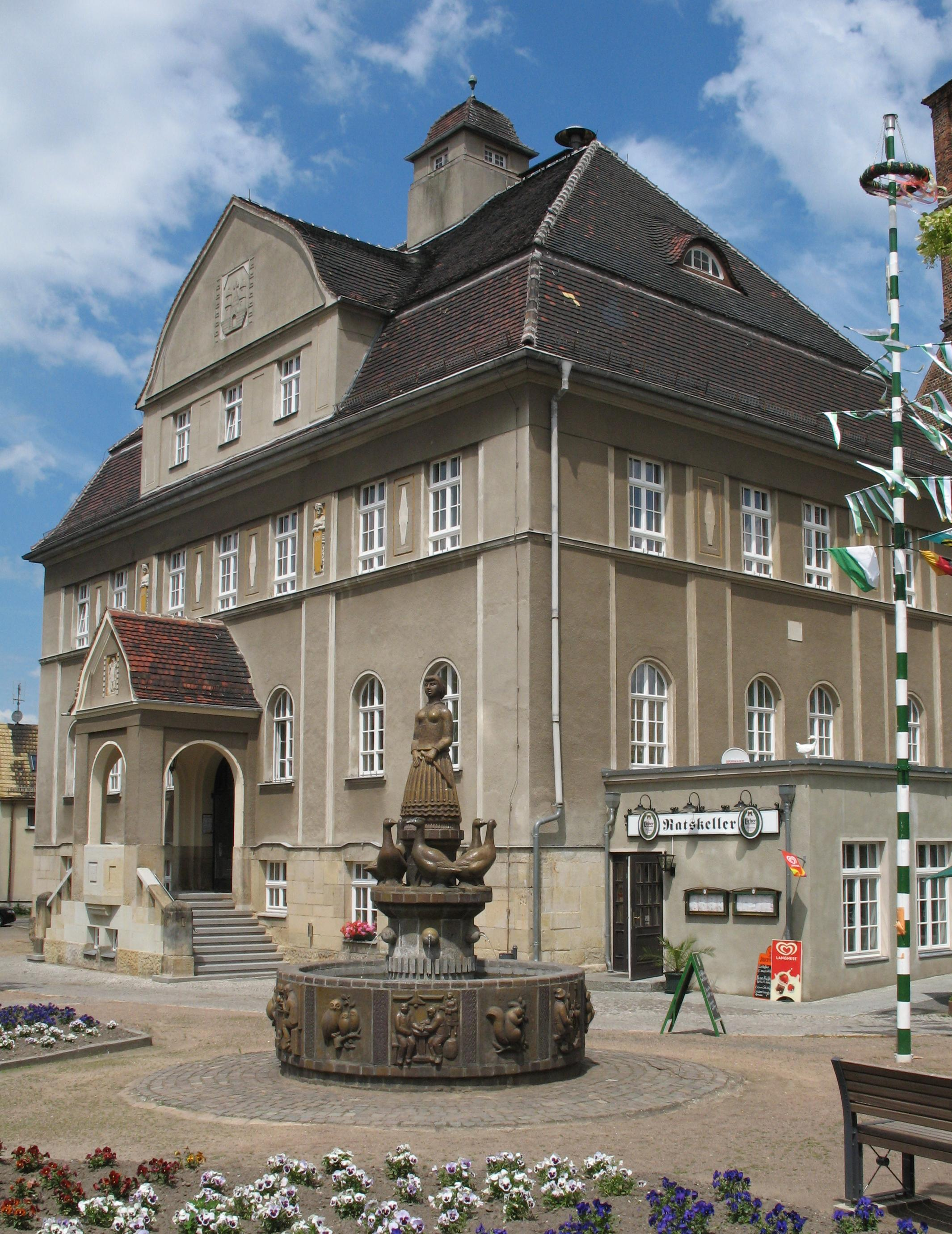 Town hall in Dommitzsch in Saxony, Germany